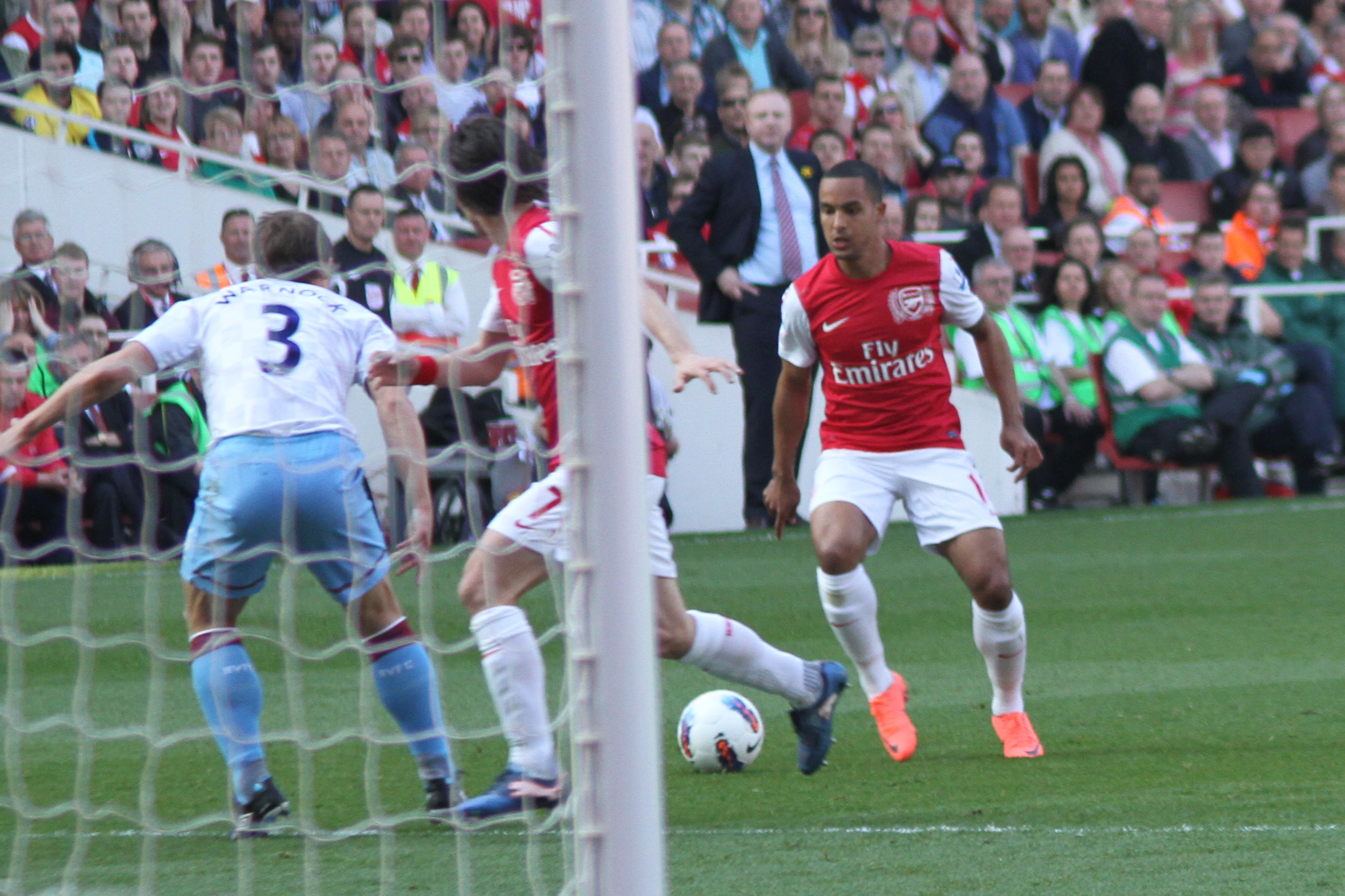 Alex McLeish admires Theo Walcott's skills